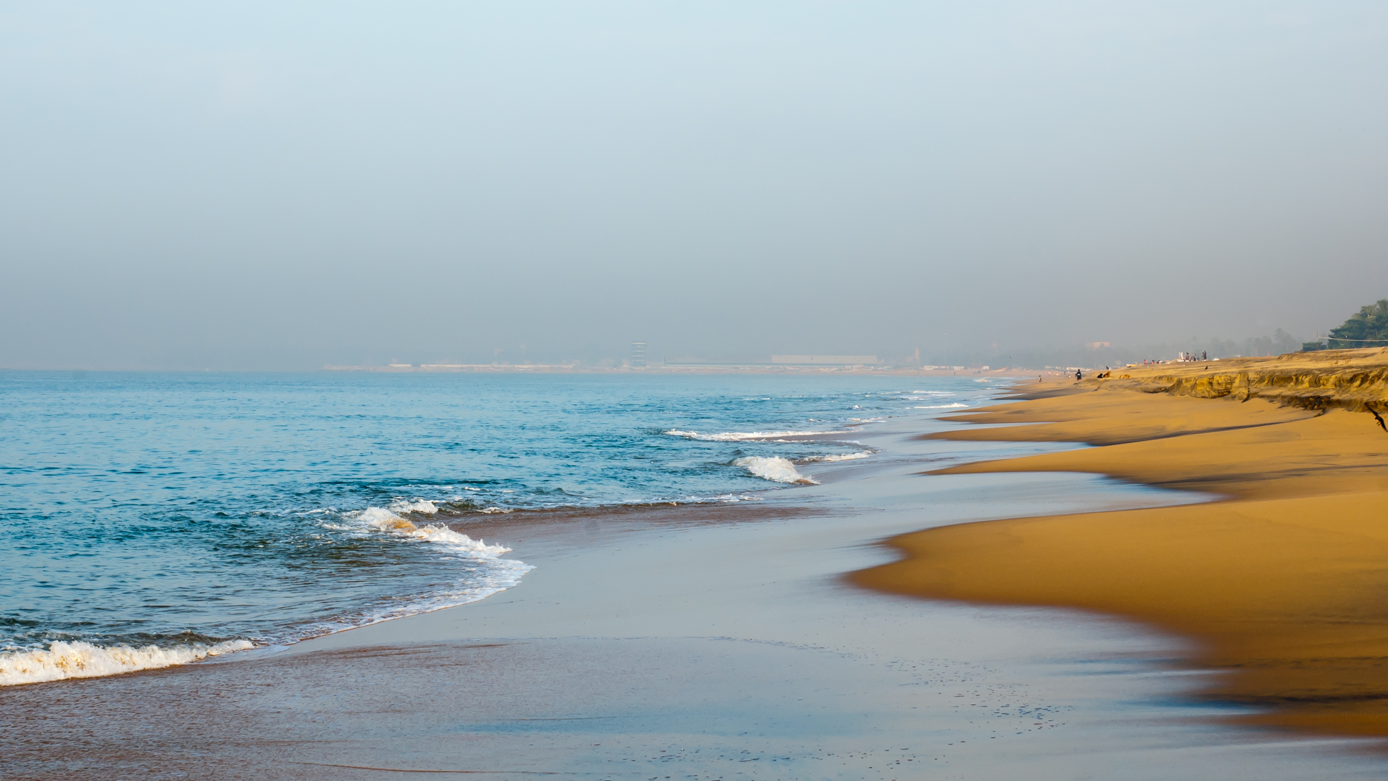 Formerly known as by its Anglacized name Quilon, it is a city on the Malabar Coast of India in the state of Kerala. The city has the second largest shipping port in the state and one of the busiest fishing harbours. It is well connected by road, rail and the state operated waterways. The waterways have regular ferries to West Kallada, Munroe Island and Allepy. There are also house boats and double decker boats that cater to the seasonal tourism.